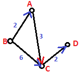 Đồ thị G